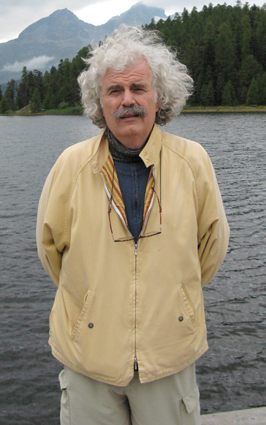 Claudio Castellacci, Italian journalist and writer.